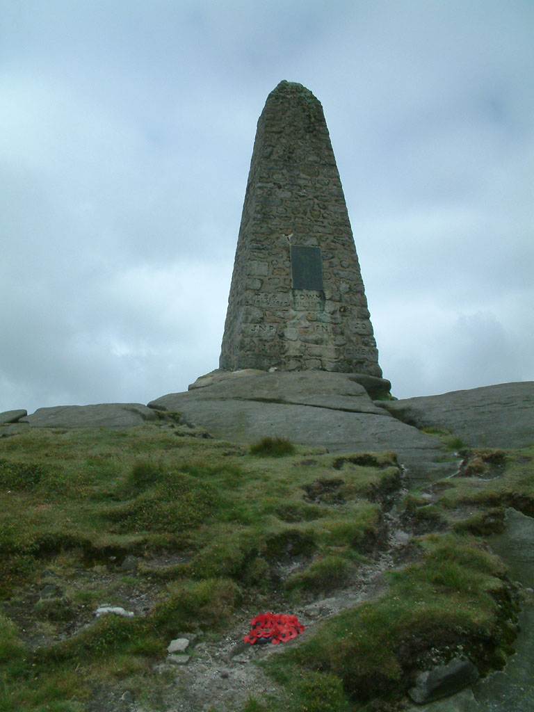 The war memorial on the summit of Cracoe Fell. Recent measurements and observations suggest that this may be higher than nearby Thorpe Fell Top and thus a Marilyn. Photograph by Stephen Dawson, 22 July 2005.